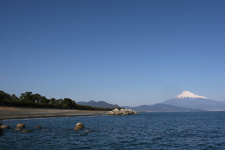 Miho no Matsubara and Mount Fuji中文（中国大陆）: 三保之松原和富士山